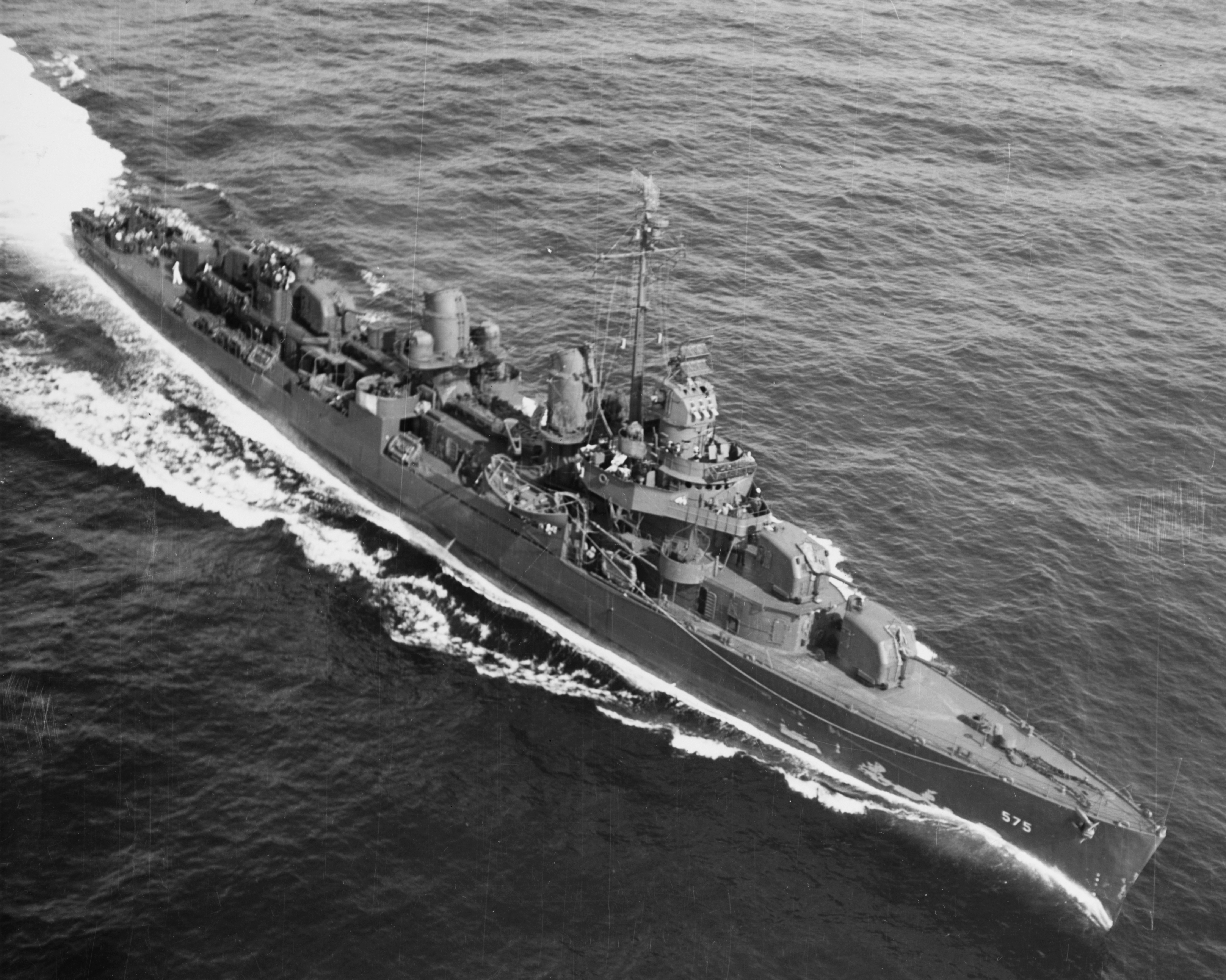 The U.S. Navy destroyer USS McKee (DD-575) steaming toward the entrance of Chesapeake Bay (position 37 00'N, 75 26'W, course 270) at time 1647h on 3 July 1943. Photographed from a blimp of Squadron ZP-14, based at Naval Air Station Weeksville, North Carolina (USA).